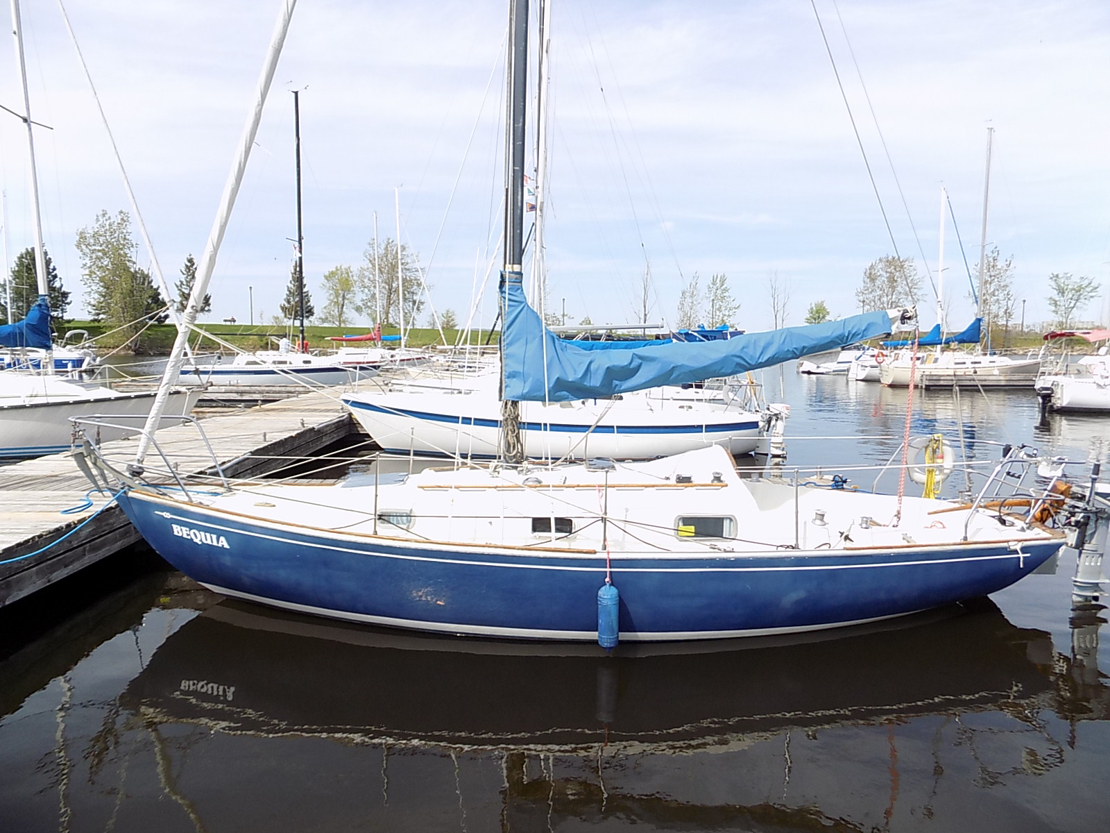 A Contessa 26 sailboat named Bequia.